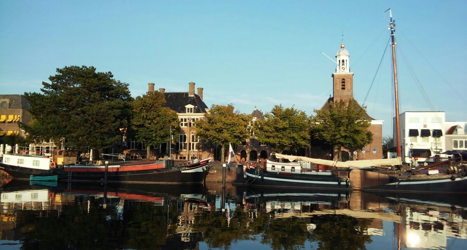 Harbor Hellevoetsluis